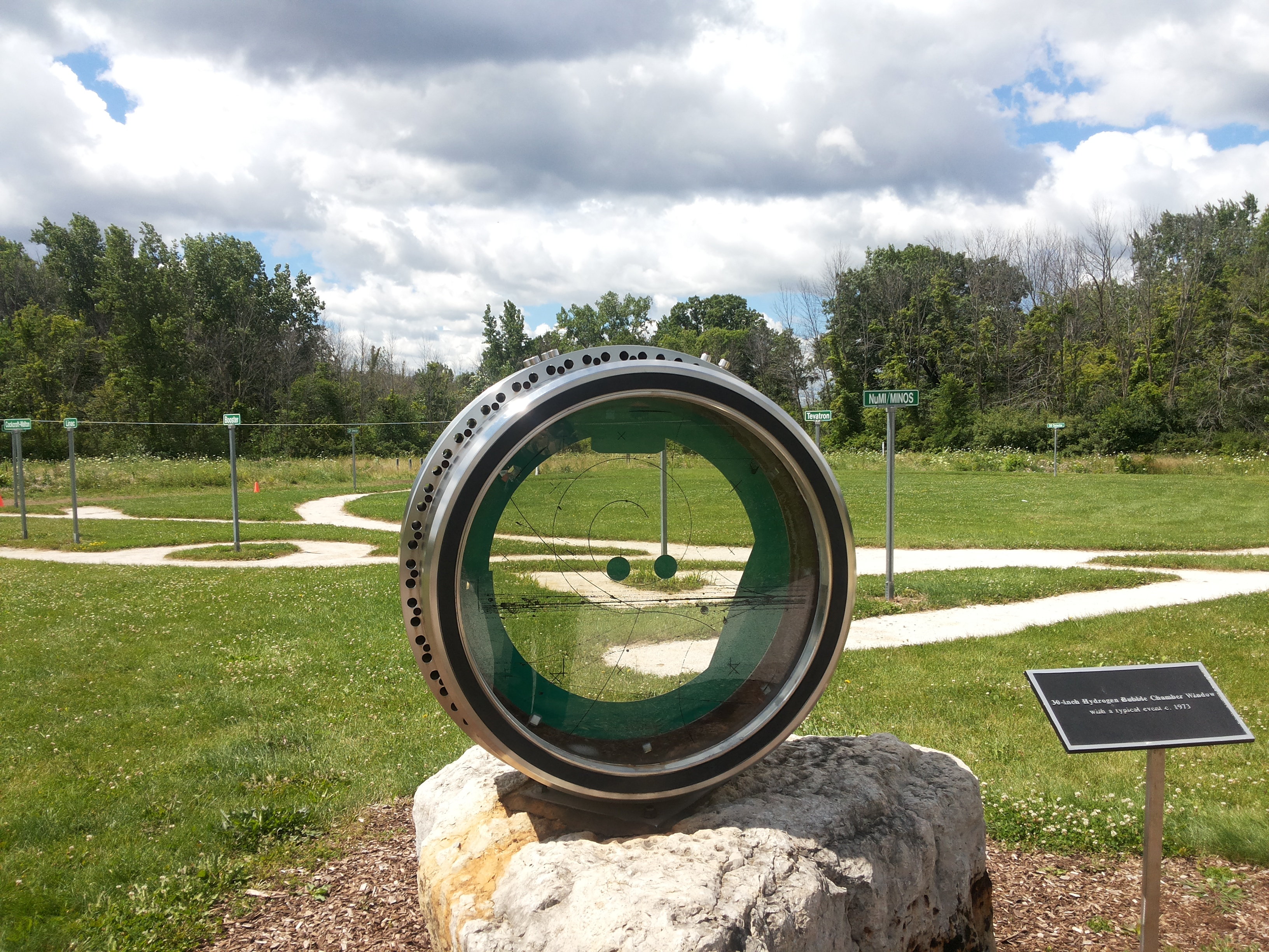 Bubble Chamber exhibit in the surrounding outdoor area of Fermilab. The proton playground - where children are encouraged to follow a path resembling the protons in a collider - can be seen in the background.